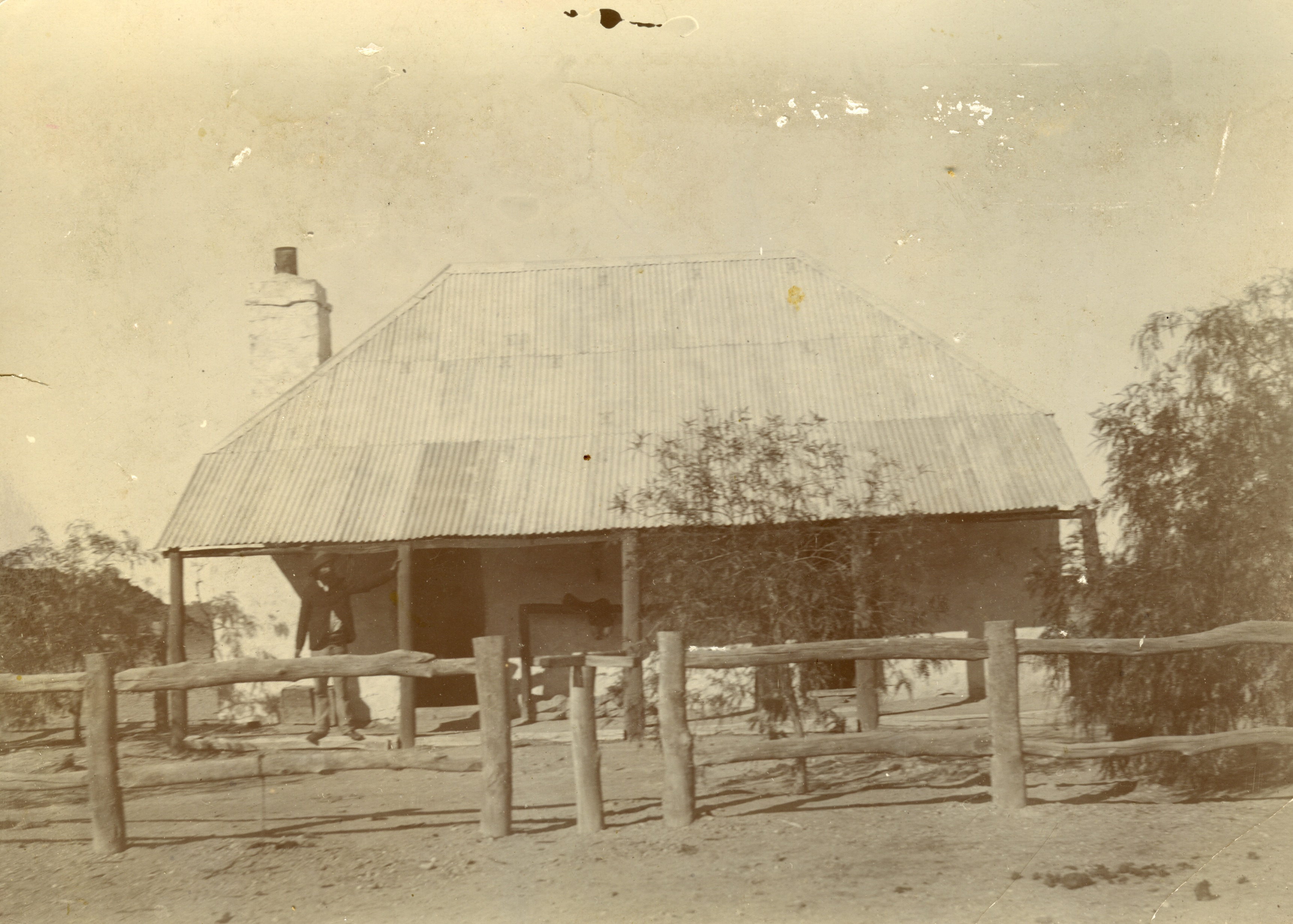 Manager's House, Undoolya Station, Central Australia (PH0797/0033)